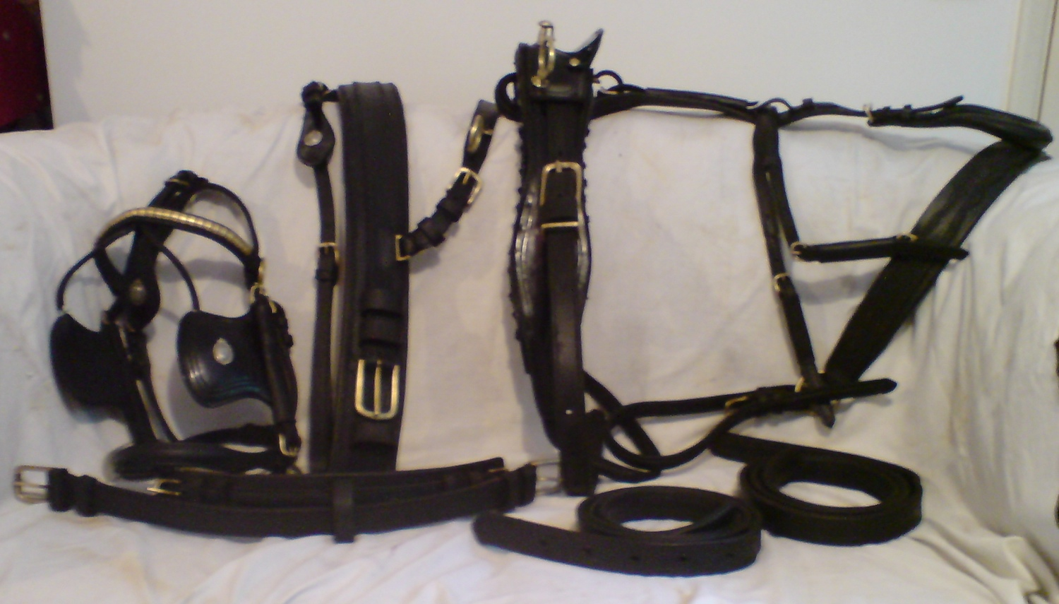 Breastcollar driving harness (full set)